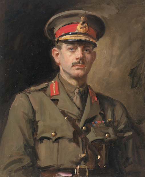 Portrait of Brigadier General Iven Giffard Mackay.